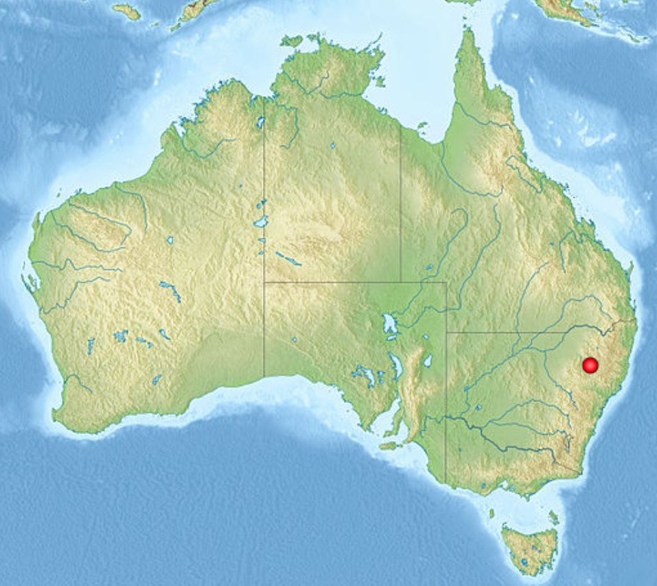 Location of Barraba in NSW and in Australia